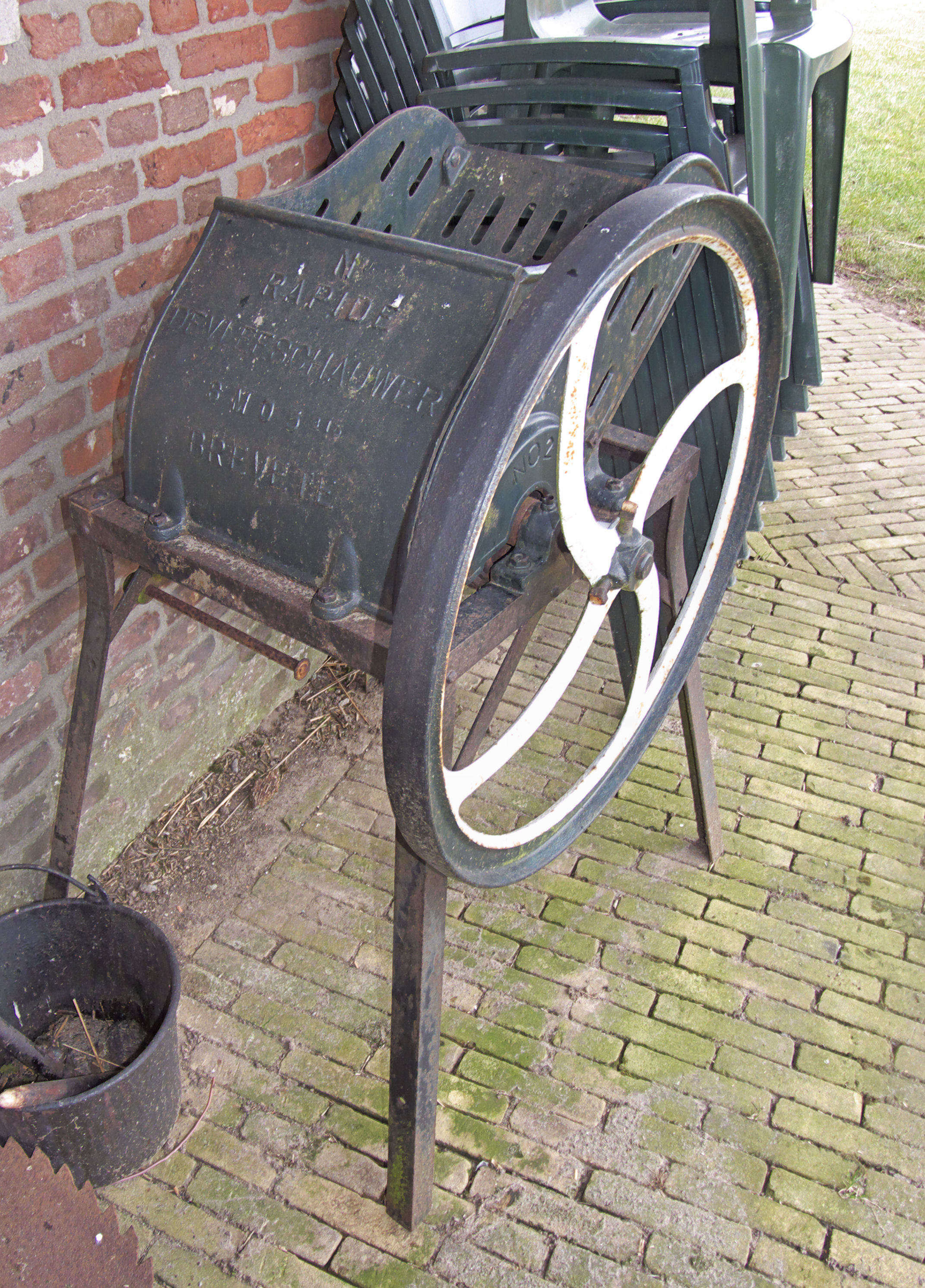 Fodder beet cutter